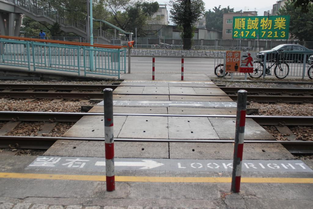 mtr lightrail crossing nai wai